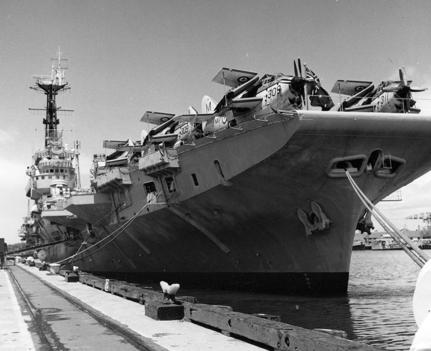 The Australian carrier HMAS Melbourne (R21) moored at Pearl Harbor, Hawaii (USA).